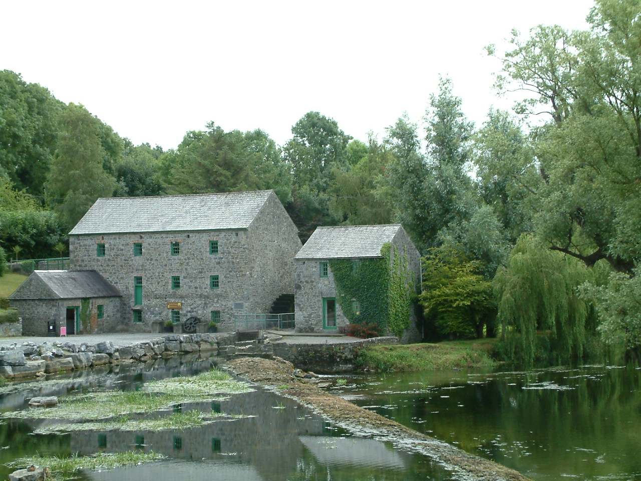 Old Mill at Kells: Looking down the Kings River at the old mill building in Kells, County Kilkenny, Ireland.